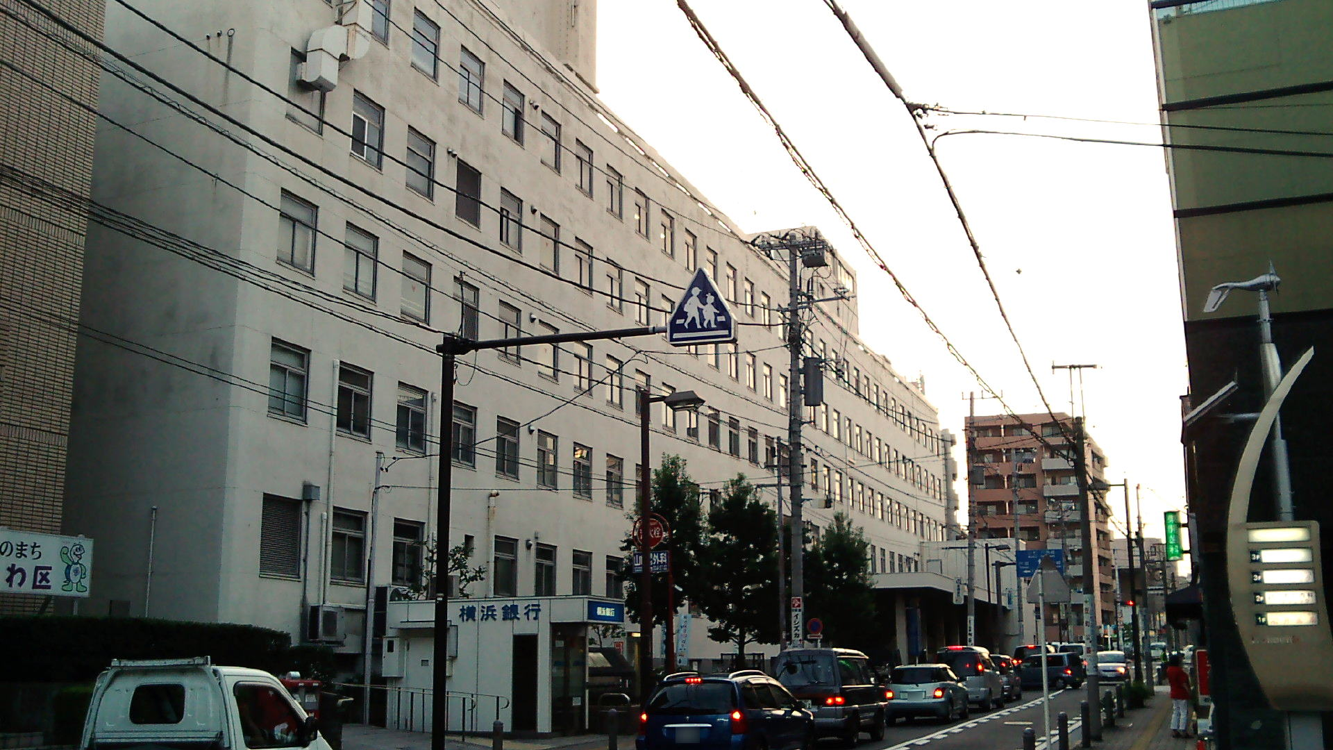 Kanagawa wardhall. Kanagawa-ku, Yokohama-shi, Kanagawa-ken, Japan